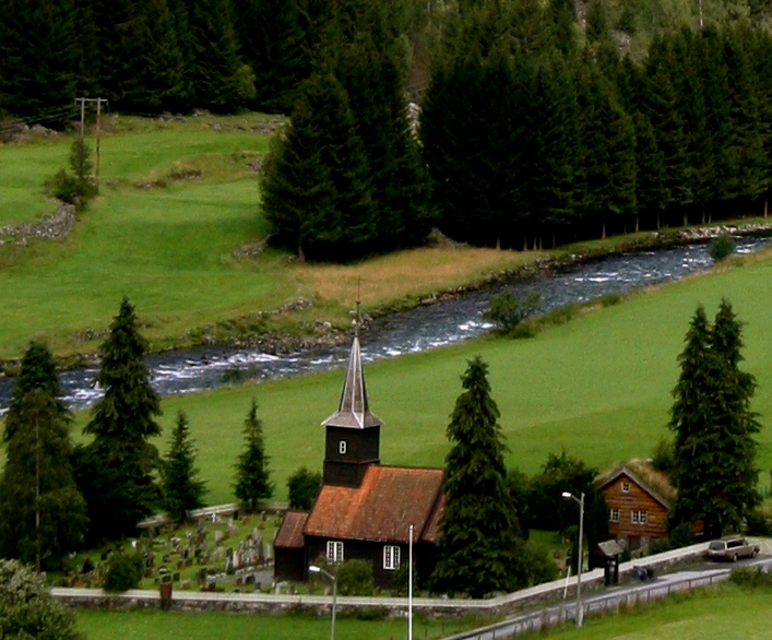 Flåm church Detail from Image:Rainbow over Flåm.jpg. Image cropped by me (User:Jorunn)